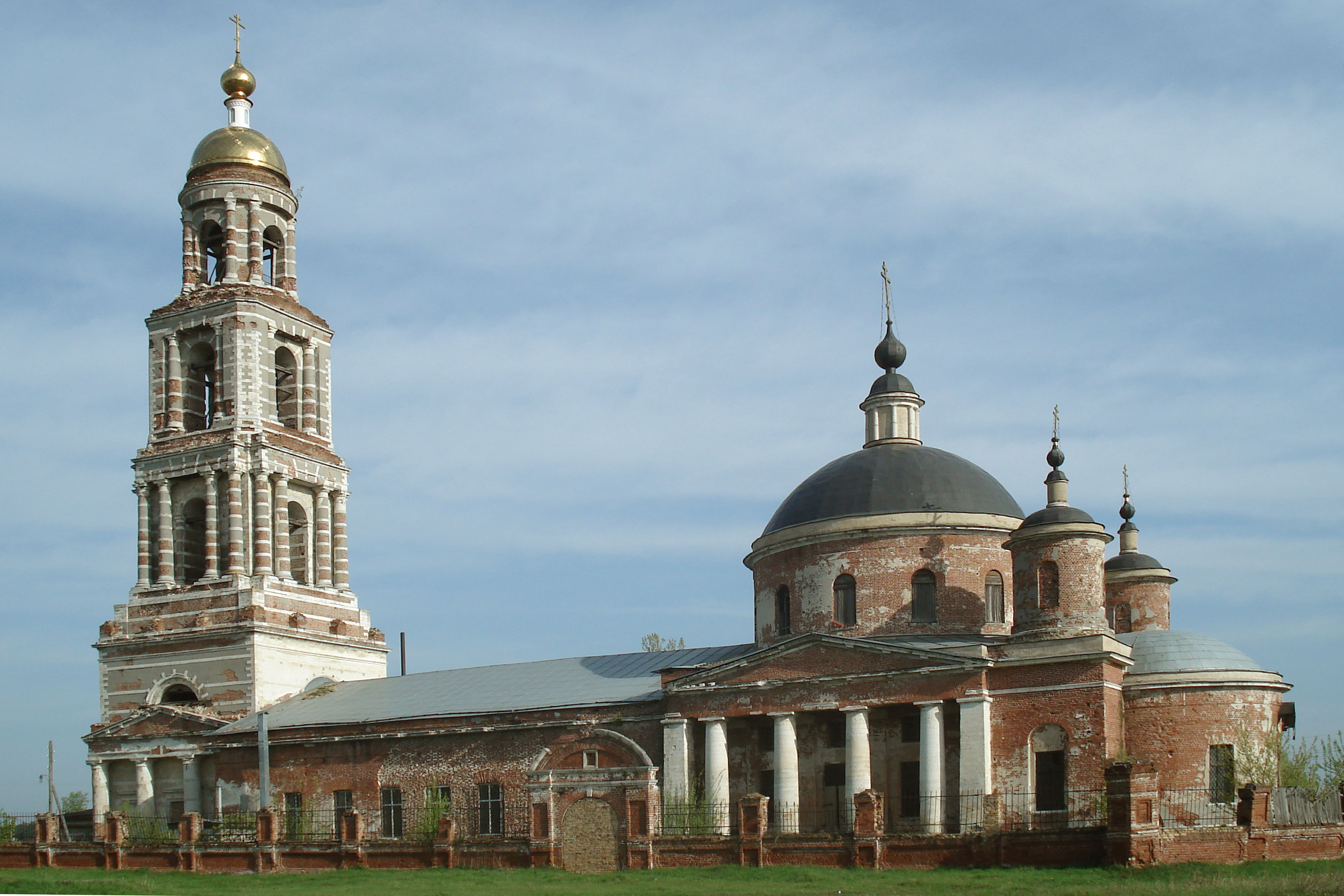 Iliynsky Pogost, Guslitsa, Moscow region. Resurrection_Church.